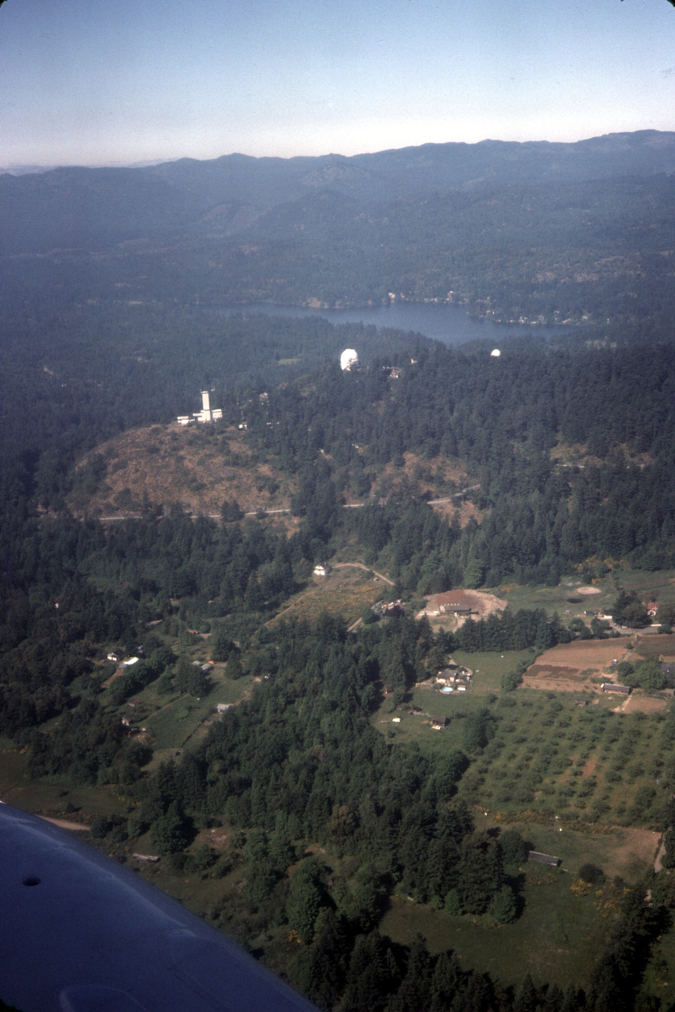 Aerial view of the Dominion Astrophysical Observatory, August 1974.